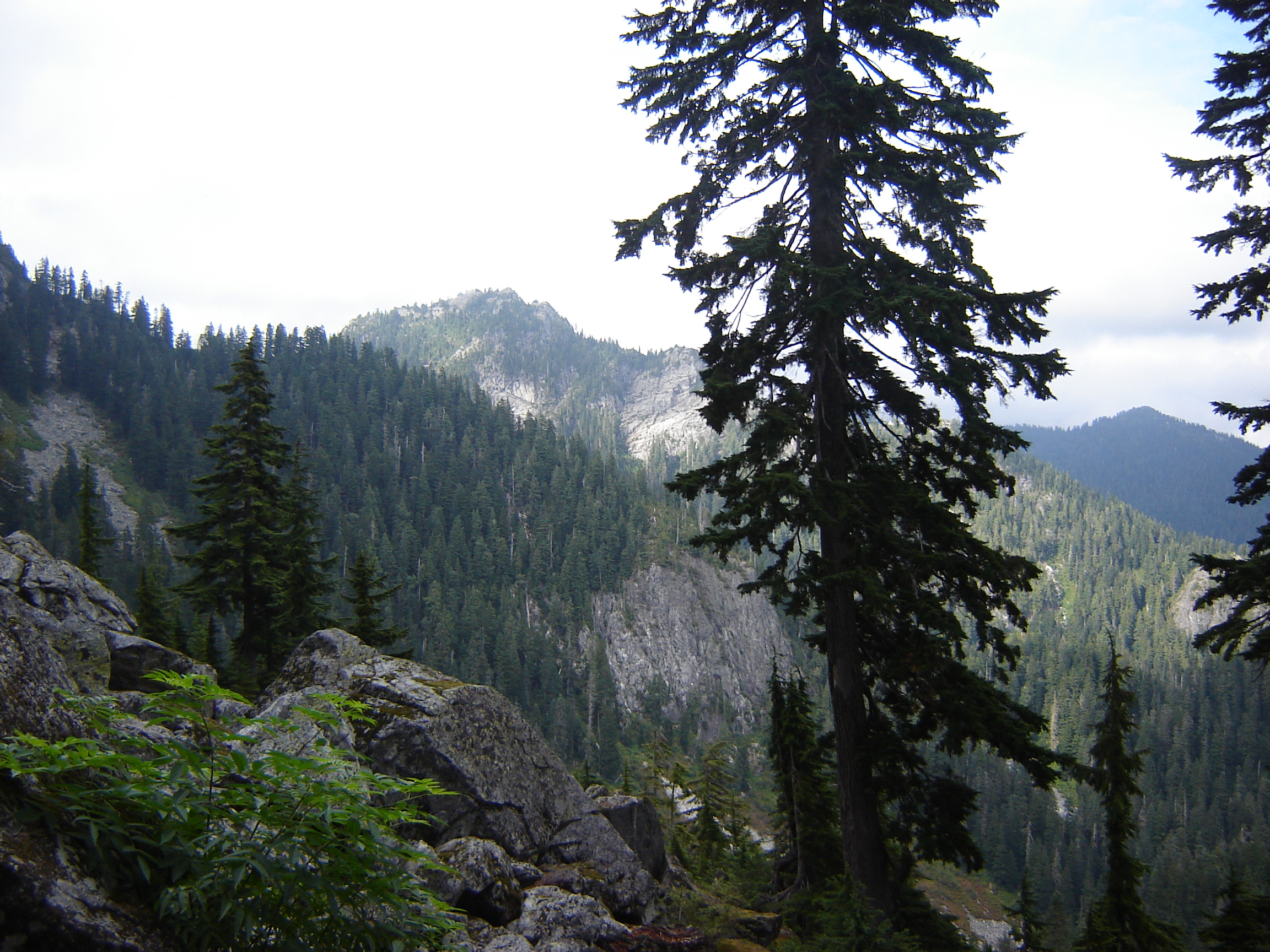 Mount Seymour Provincial Park Keith Freeman photo. Taken September, 2005